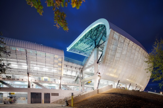 Cluj Arena transparency